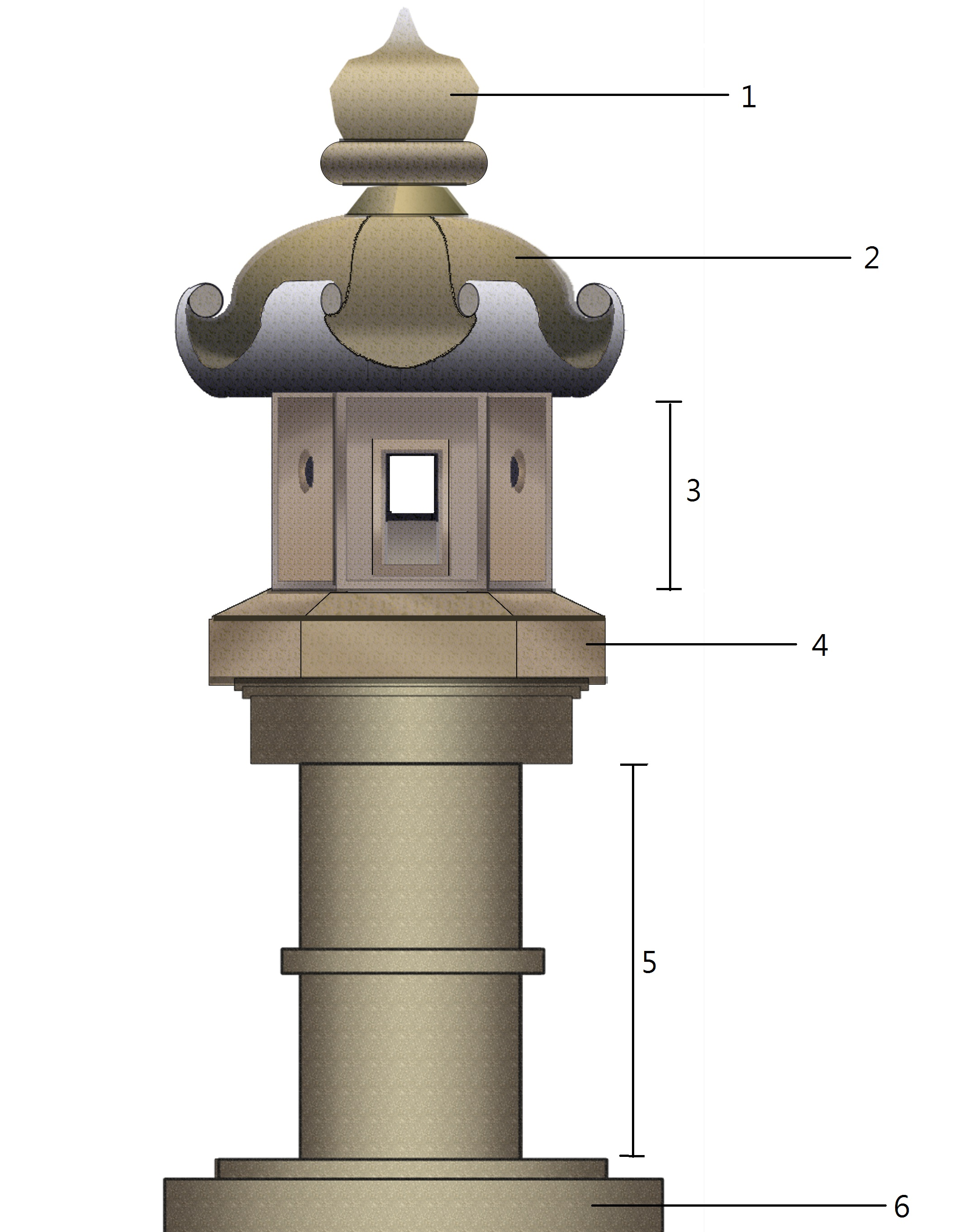 An illustration of a Kasuga-dōrō Japanese stone garden lantern.